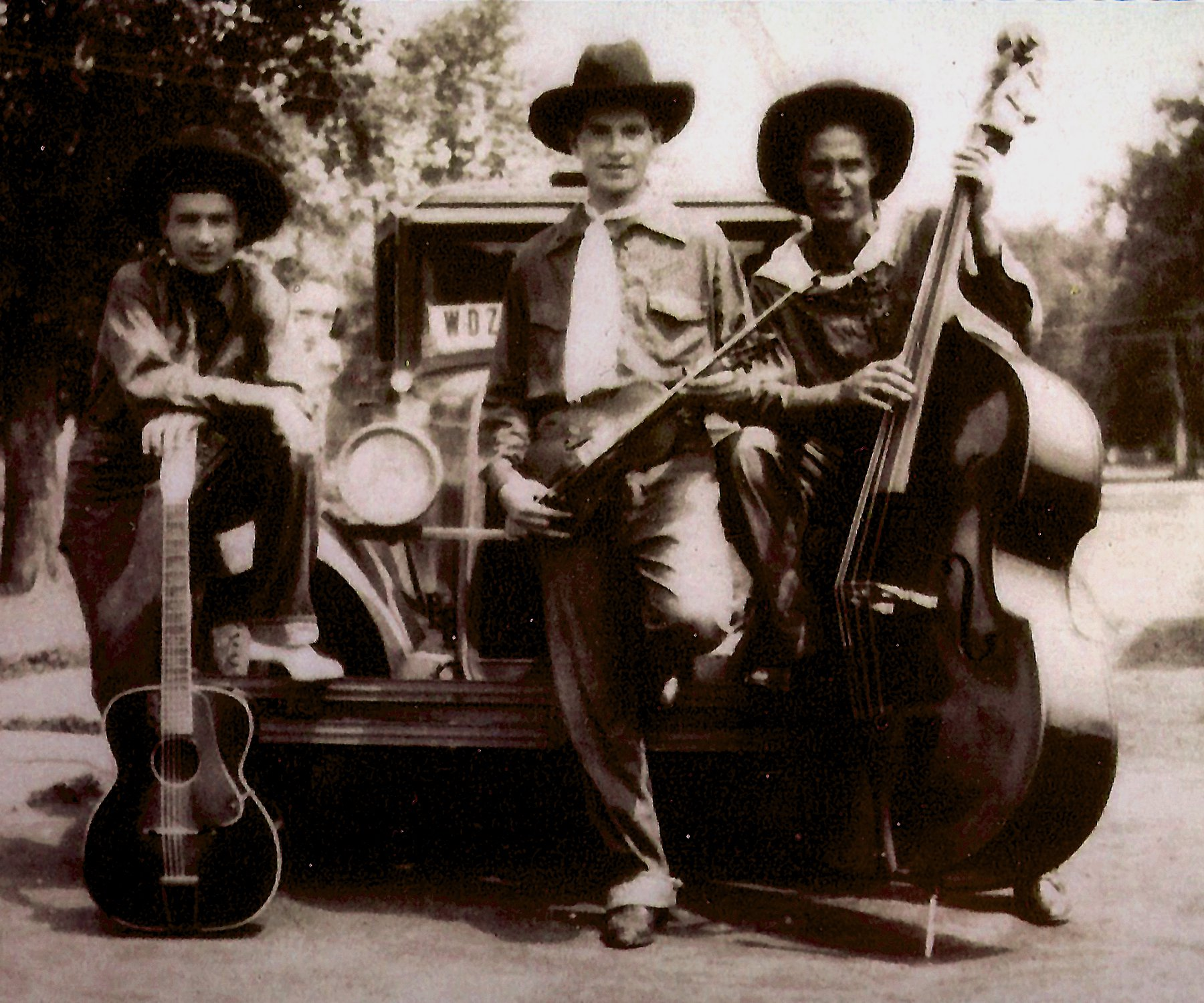 The Rhythm Riders (Left to Right) 'Skinny' Masseneli, John Samuel Cox, Cecil Wright, pose with WDZ remote broadcast truck, circa 1939.